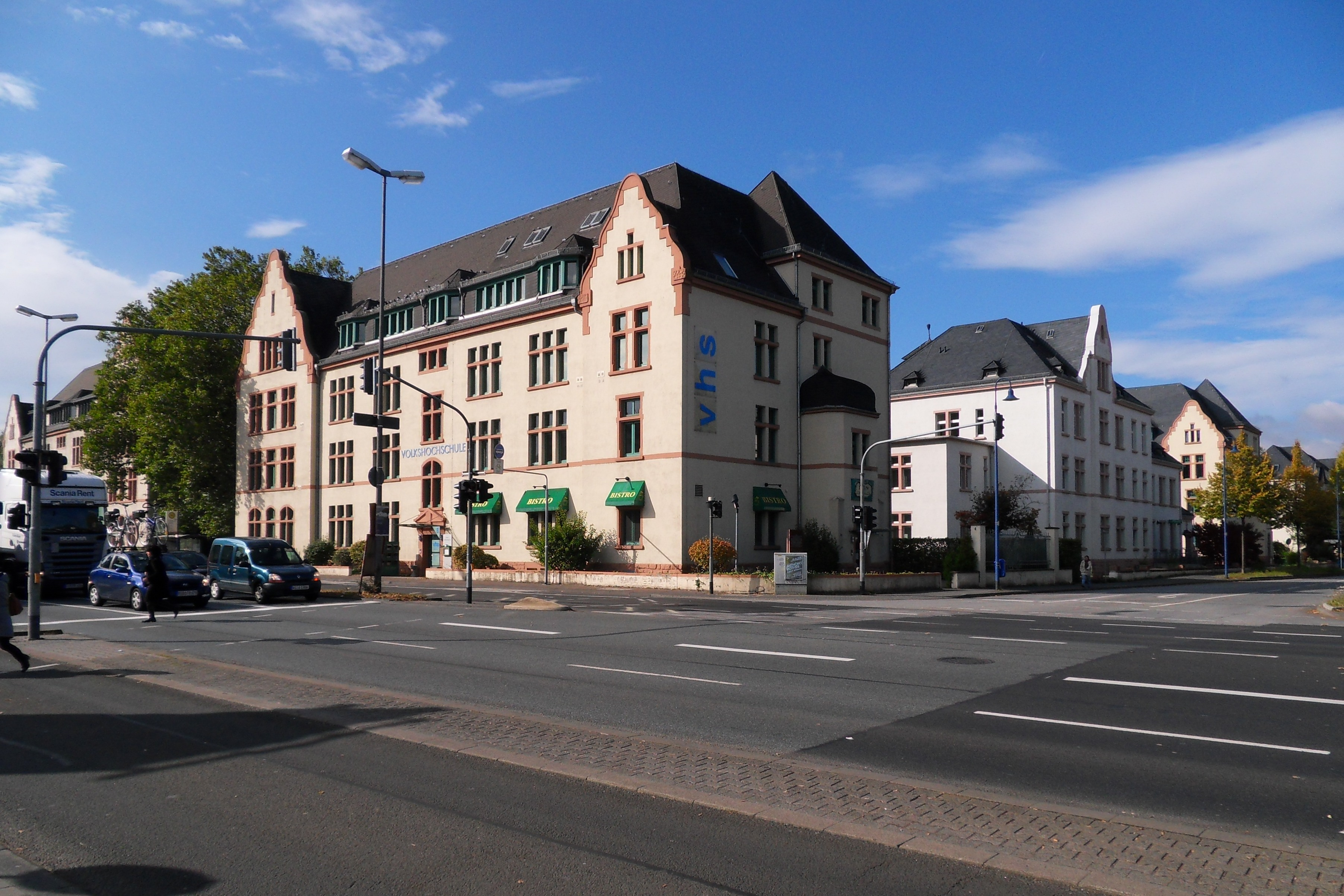 Adult high school or Volkshochschule (vhs) Wiesbaden in the Europaviertel